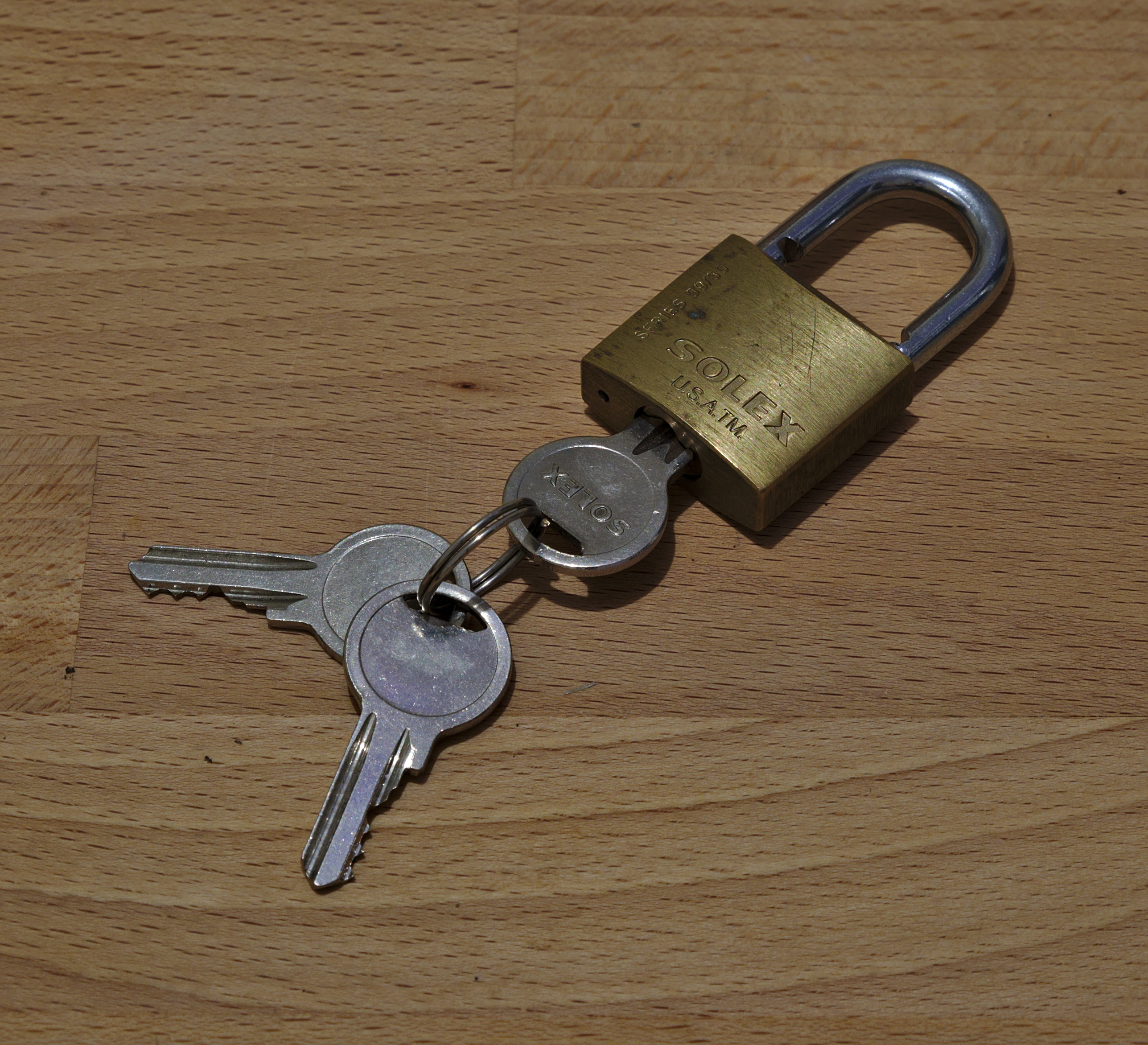 Solex 99 30 lock with keys (DSCF2659)